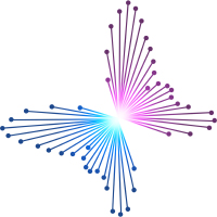 GIS Taiwan Logo